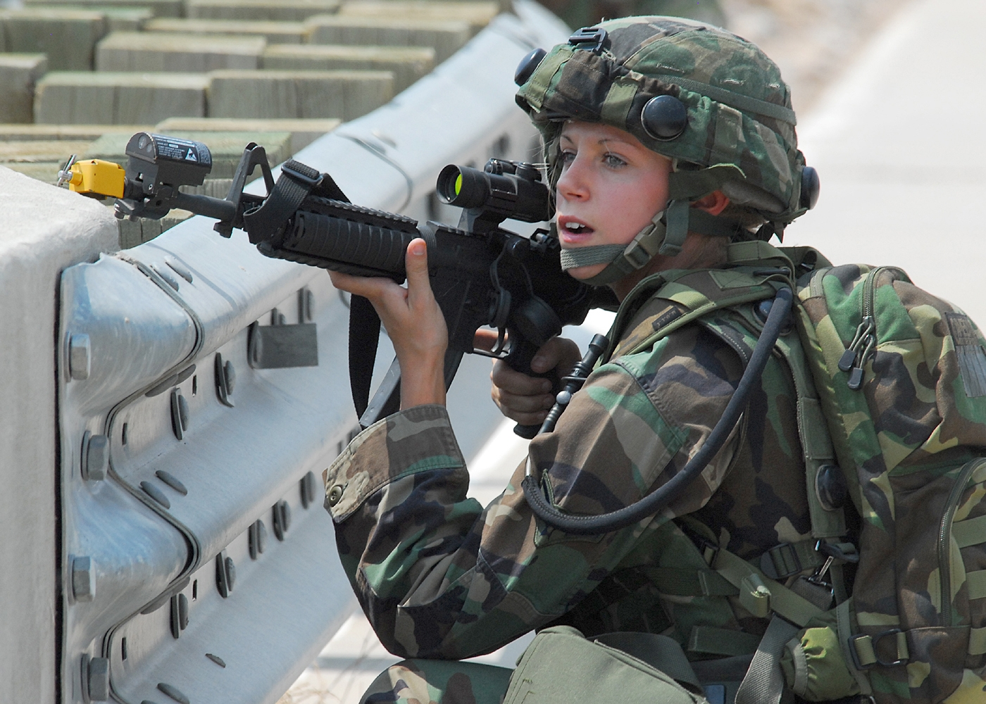 Airman 1st Class Ashley Gonzalez, 377th Security Forces Squadron, scans the area for the enemy during the exercise. (Text by United States Air Force, Kirtland Air Force Base, New Mexico, USA.)